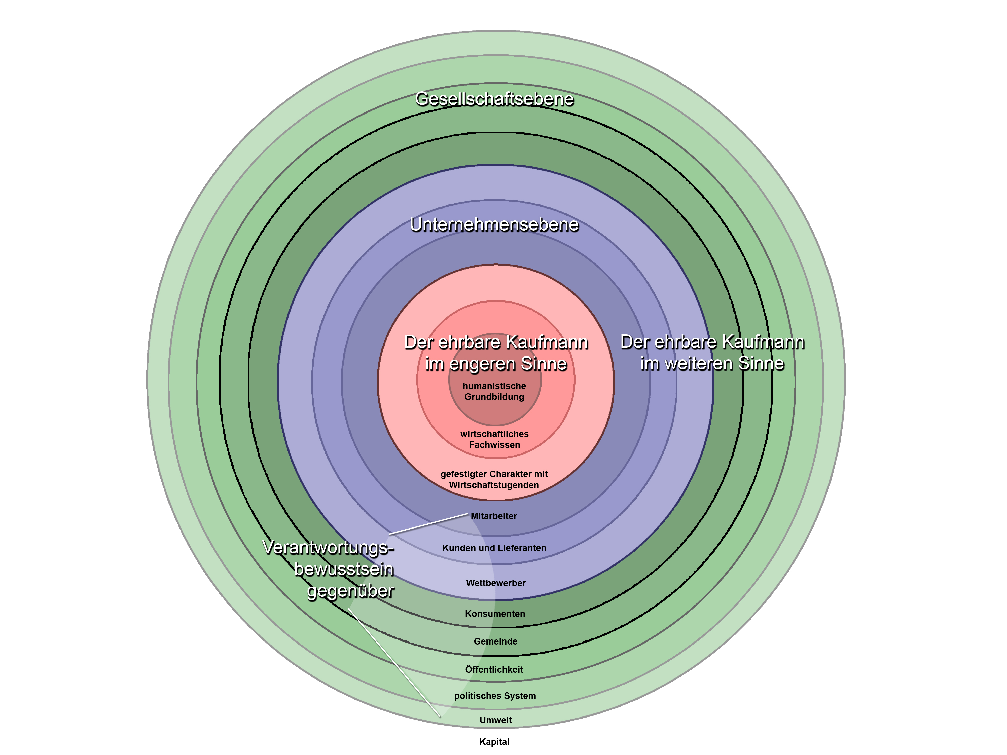 The illustration shows the dimensions, which describe honorable merchants